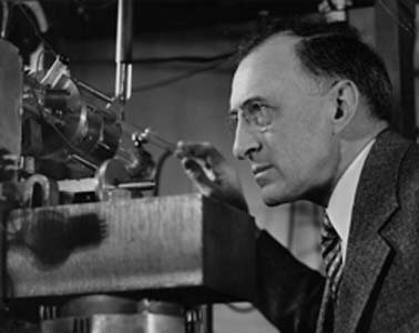 Portrait of Arthur Jeffrey Dempster